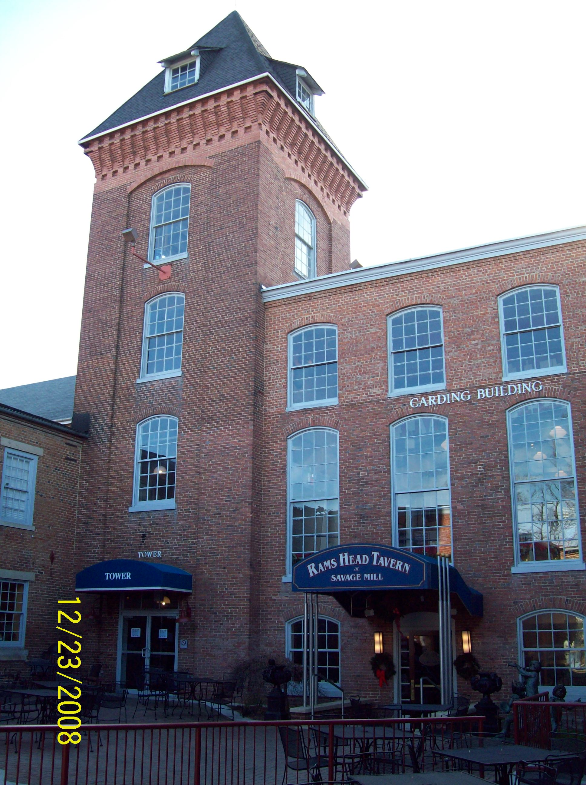 Savage Mill Tower, Savage, Maryland, December 2008